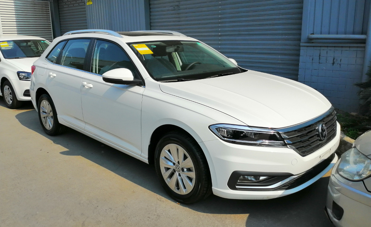 Volkswagen Gran Lavida II photographed in Chongqing, China.